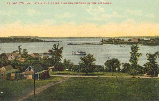 Little and Great Diamond islands in the distance, Falmouth, Maine